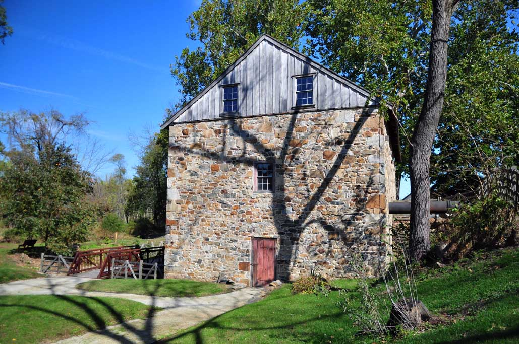 The Mill at Anselma, a.k.a. Lightfoot Mill, circa 1747, in commercial operation until 1982. Chester Springs, Pennsylvania, USA.